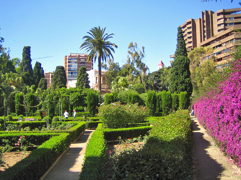 Jardí de Monfort, Valencia